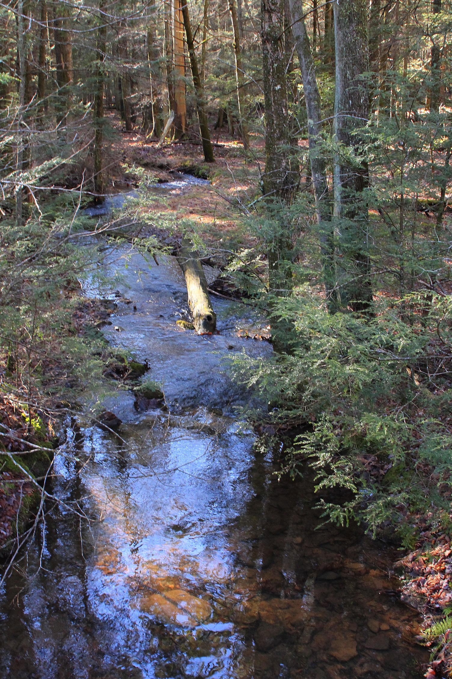 Crooked Creek, a tributary of Kitchen Creek, looking downstream